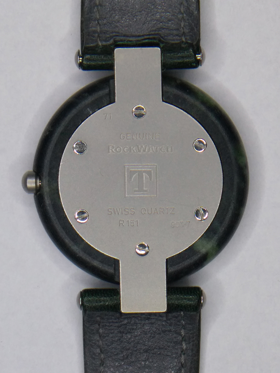 Tissot RockWatch R151 Men's size dark green back plate view